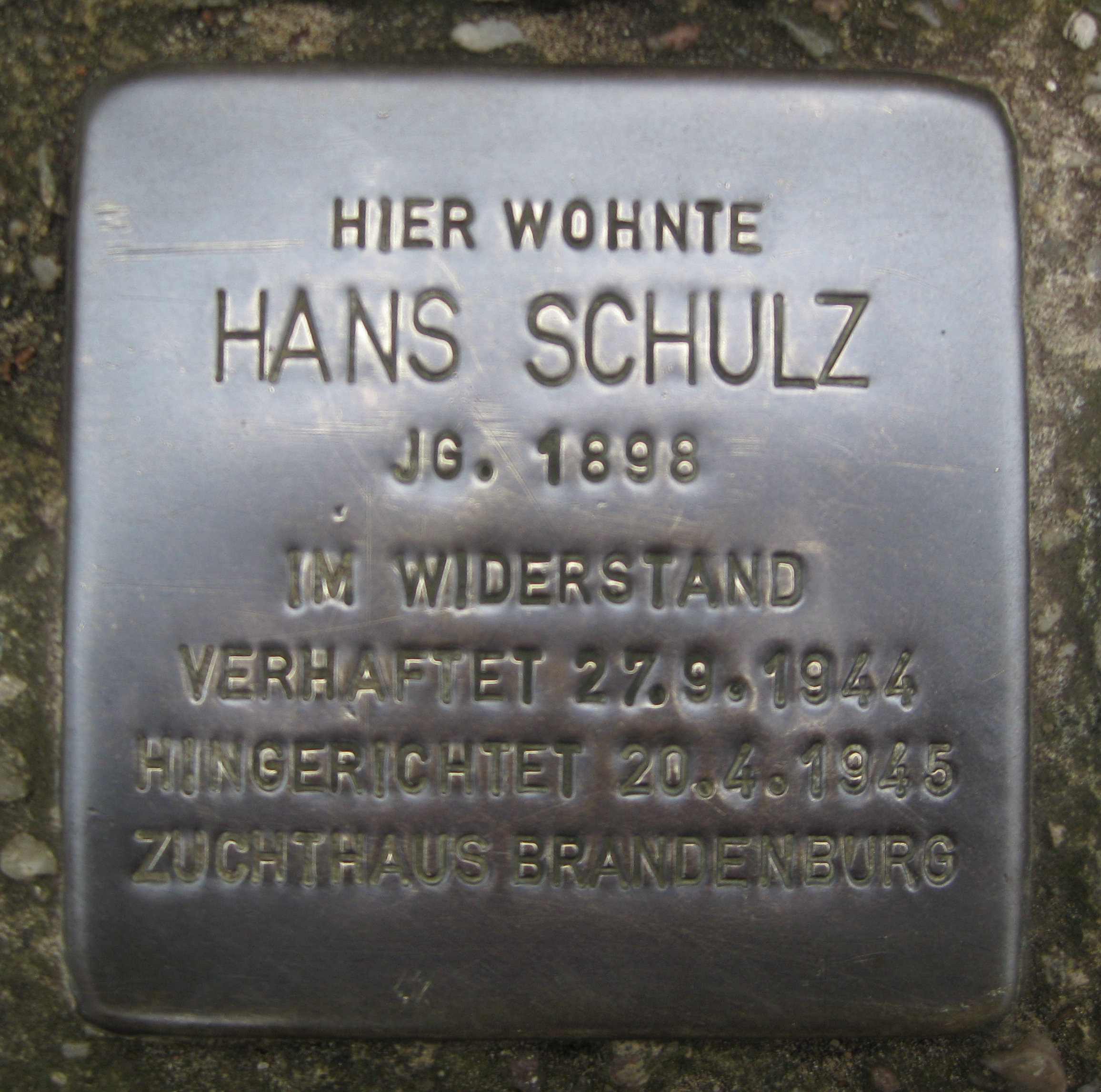 Stolperstein in memory of Hans Schulz, member of the resistance, in front of the house at Ernststraße 94.